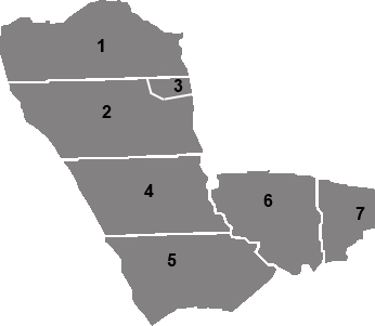 map of the constituencies in Kunene region in Namibia